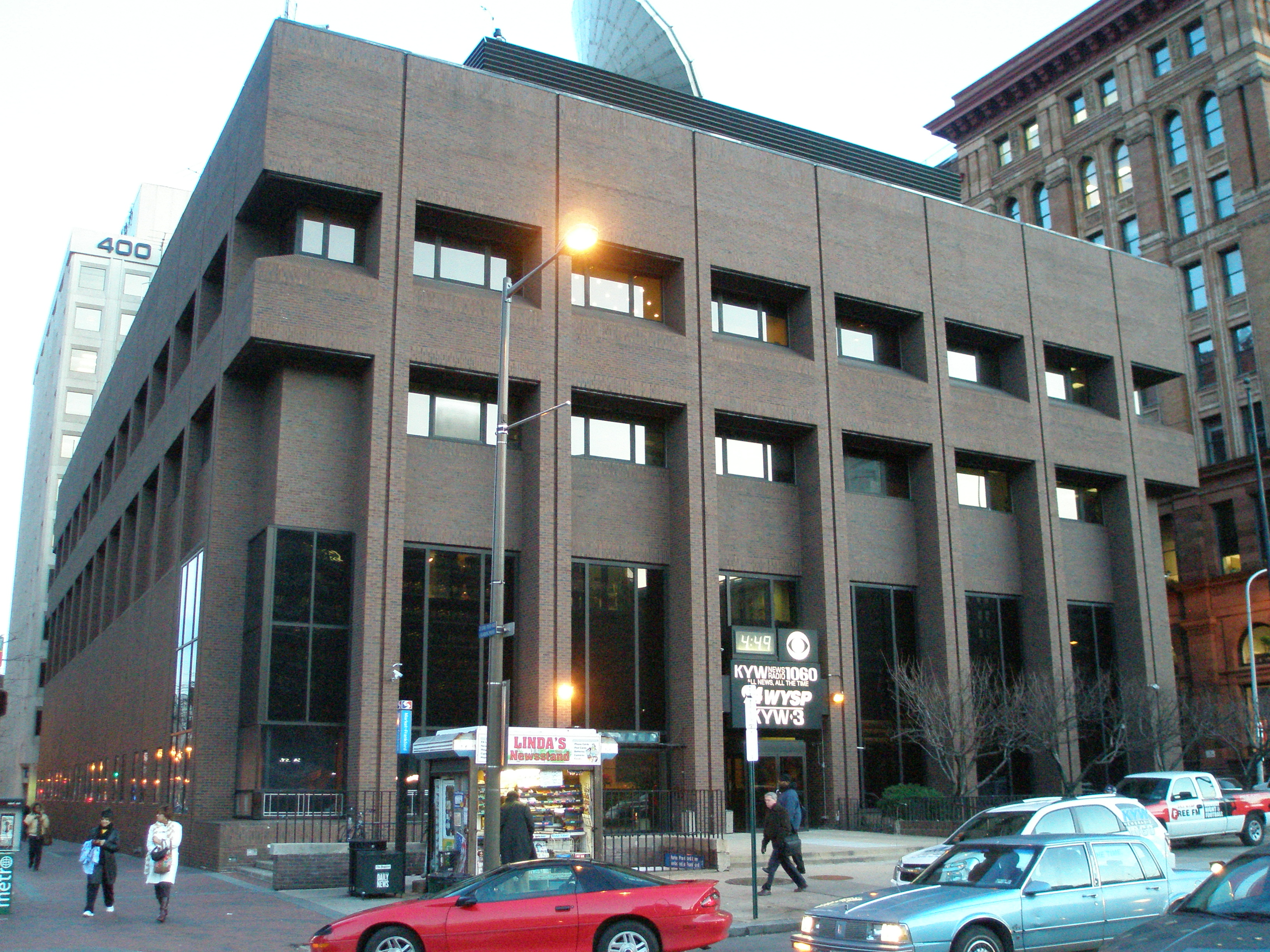 The 5th Street (SEPTA station) and the old KYW (AM)/KYW-TV building (torn down in 2007)